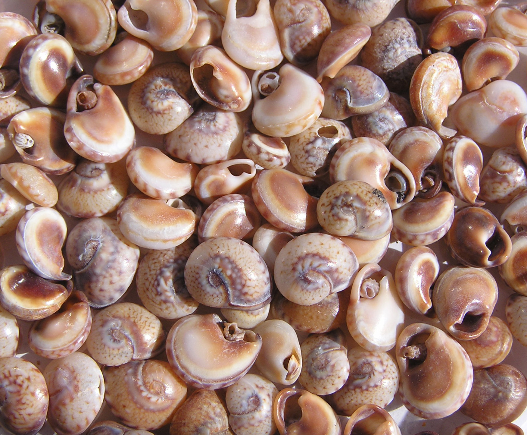 Tritia pellucida (Risso, 1826) (synonyms: Cyclope pellucida, Nana donovani) Note: Geo-location is not available. This is studio work.